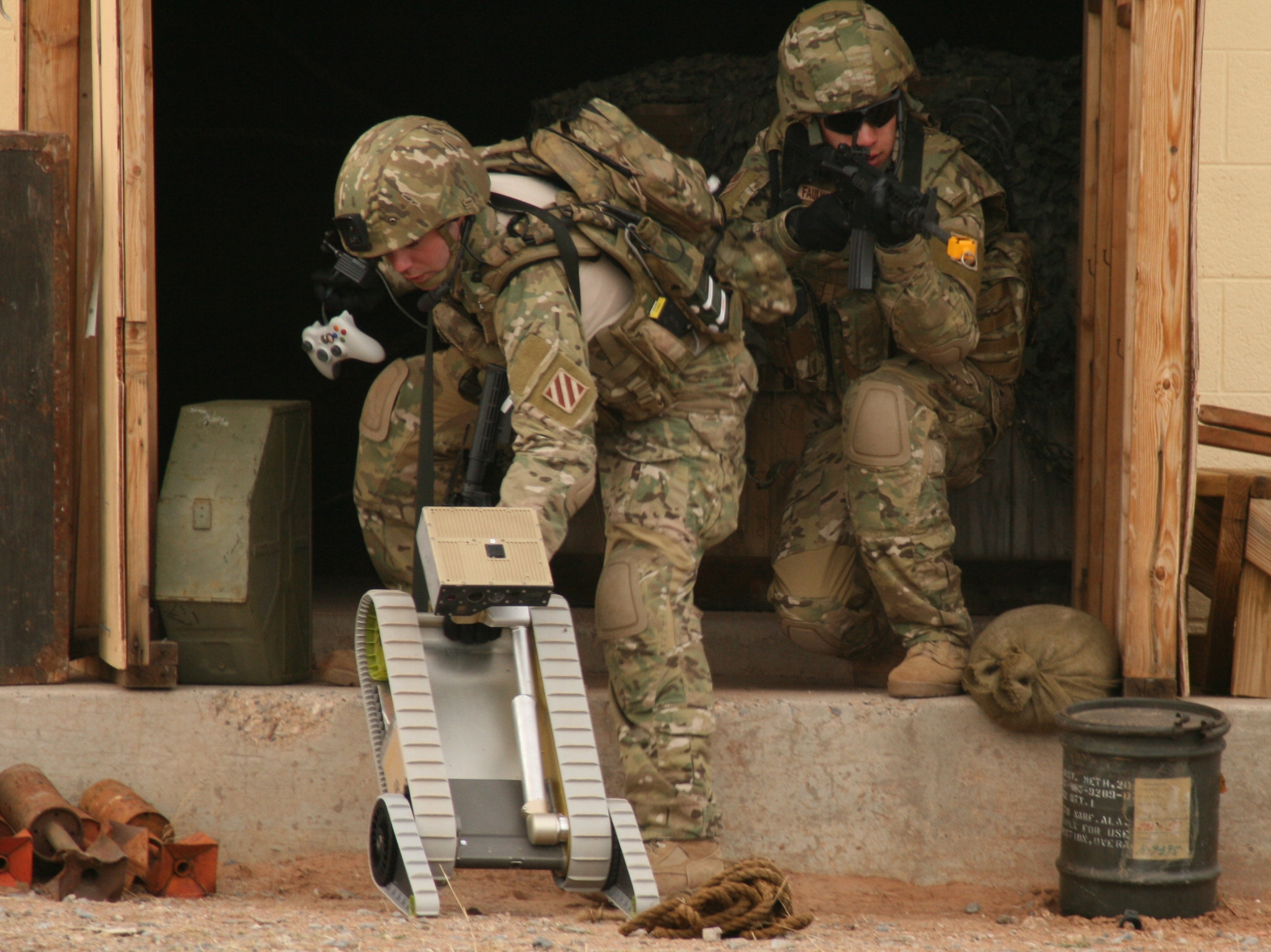 Soldiers from the Future Combat Systems, Evaluation Brigade Combat Team, employ an unmanned vehicle to clear a road during an exercise and live demonstration Feb. 1 at Oro Grande Range, Fort Bliss, Texas. You can see the XBOX 360 Contoller.